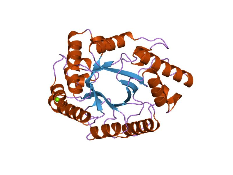 Cartoon representation of the molecular structure of protein registered with 1nq6 code.